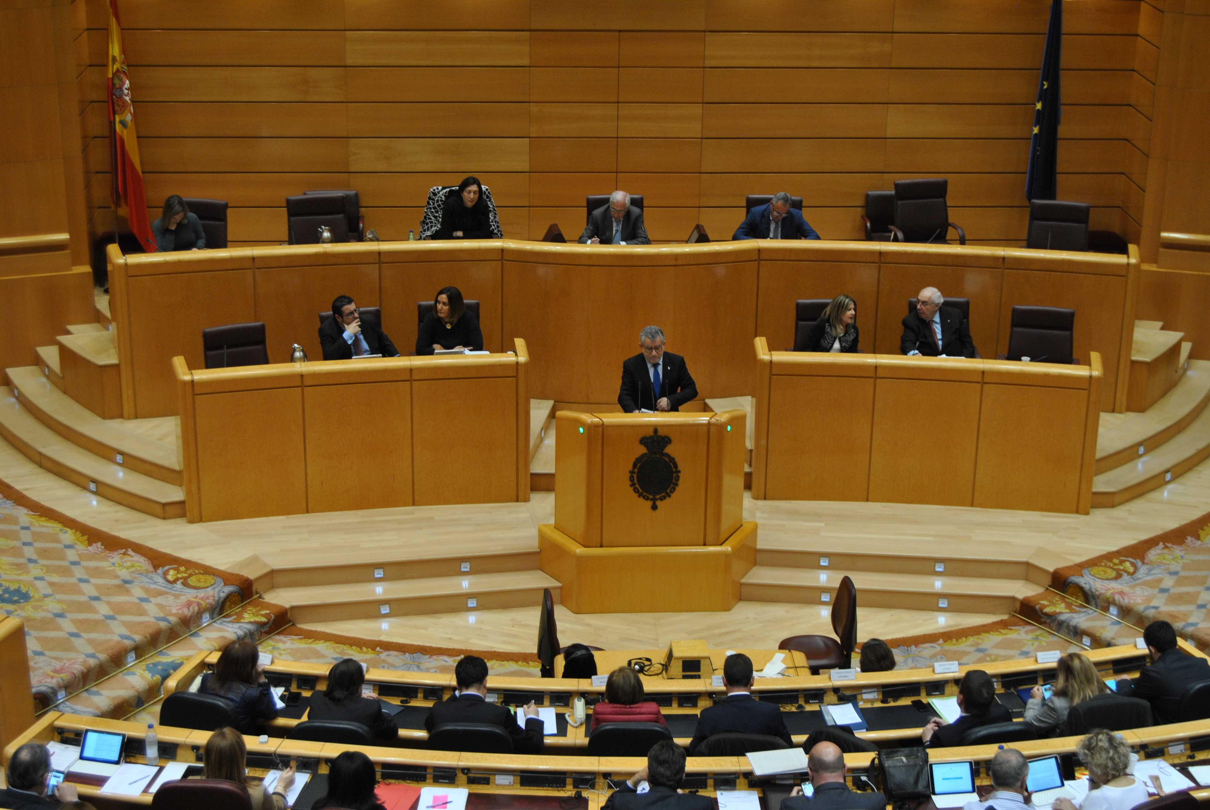 Appearance of the Minister of Education, Culture and Sports of the Regional Government of Castilla-La Mancha, Ángel Felpeto, before the General Committee on Autonomous Communities of the Senate in the debate on the diagnosis and contributions to the work of the Covenant on Social and Political Status for Education .